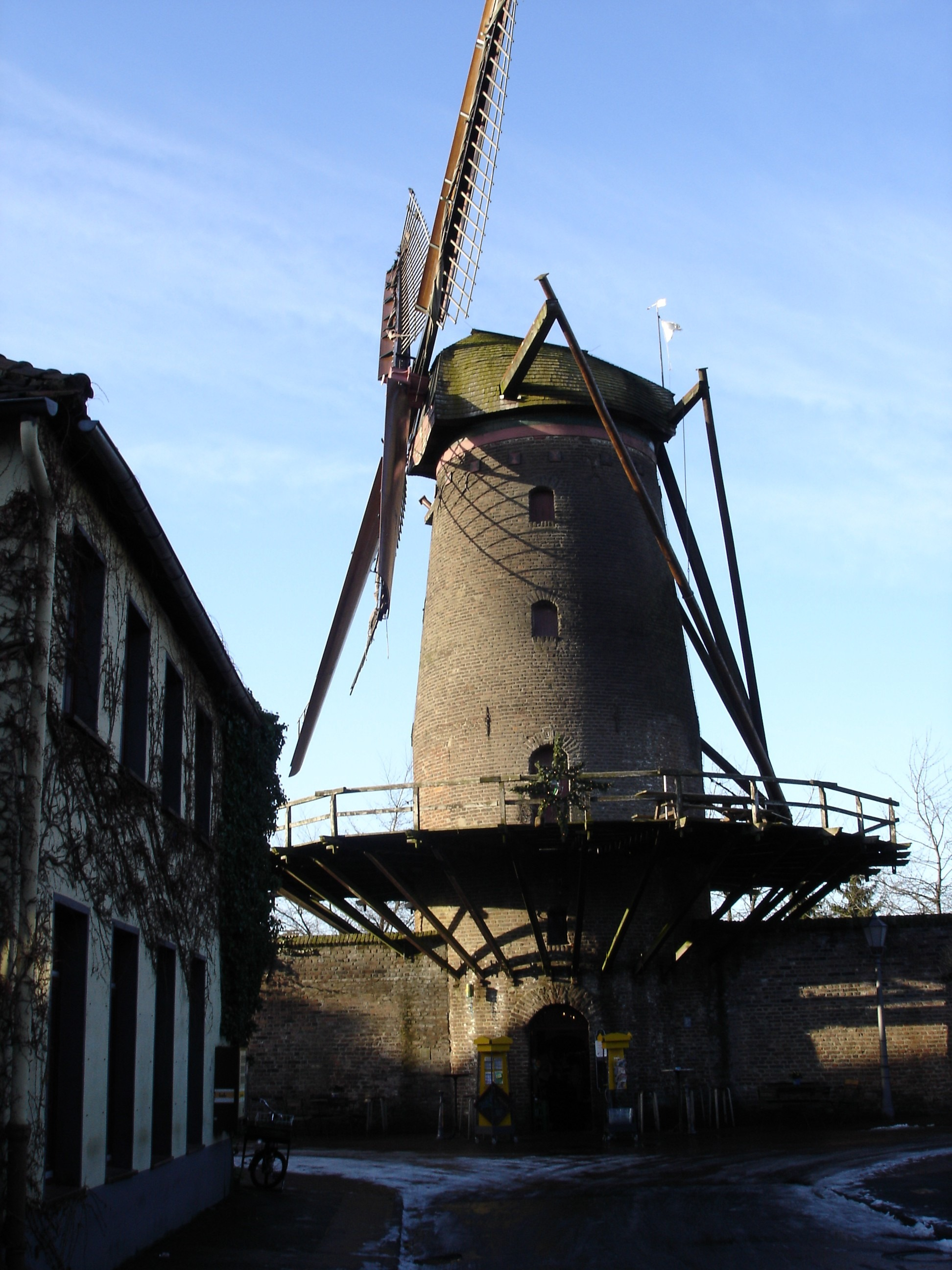 Kriemhild mill, Xanten, Germany